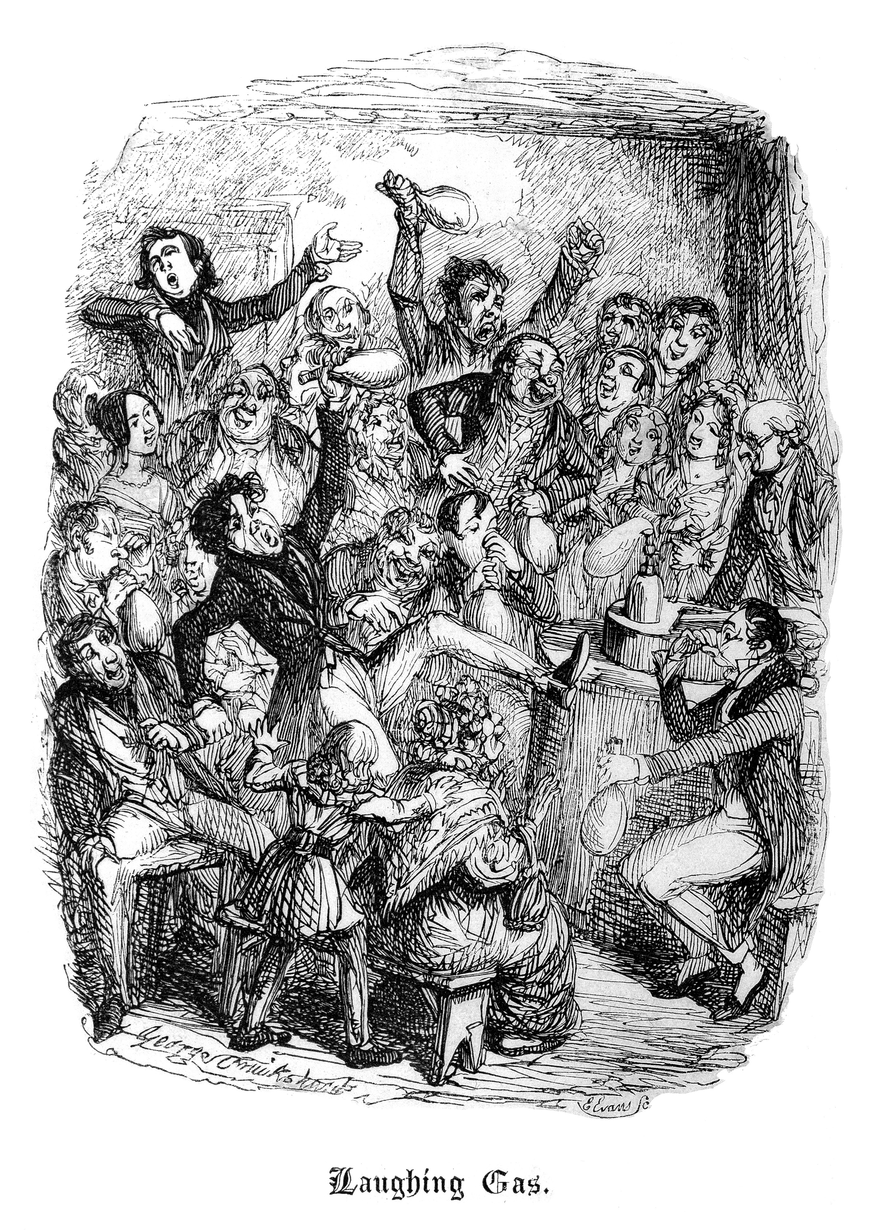 'Laughing Gas'. General Collections Keywords: George Cruikshank